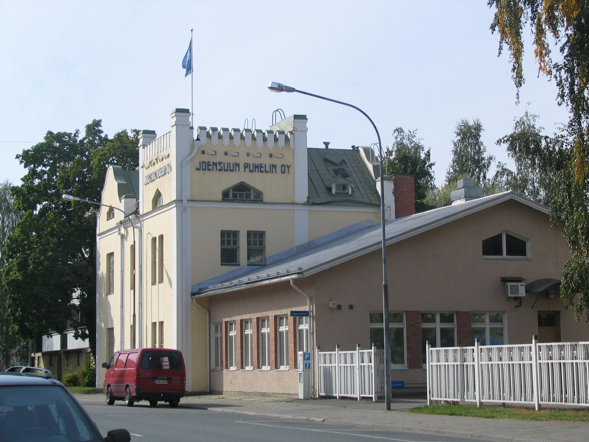 Building of Joensuun Puhelin